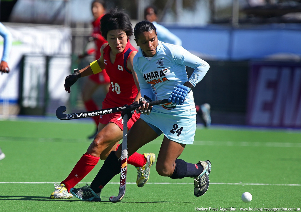 India playing against Japan in the FIH Women's Field Hockey World Cup, Rosario, Argentina, 2010